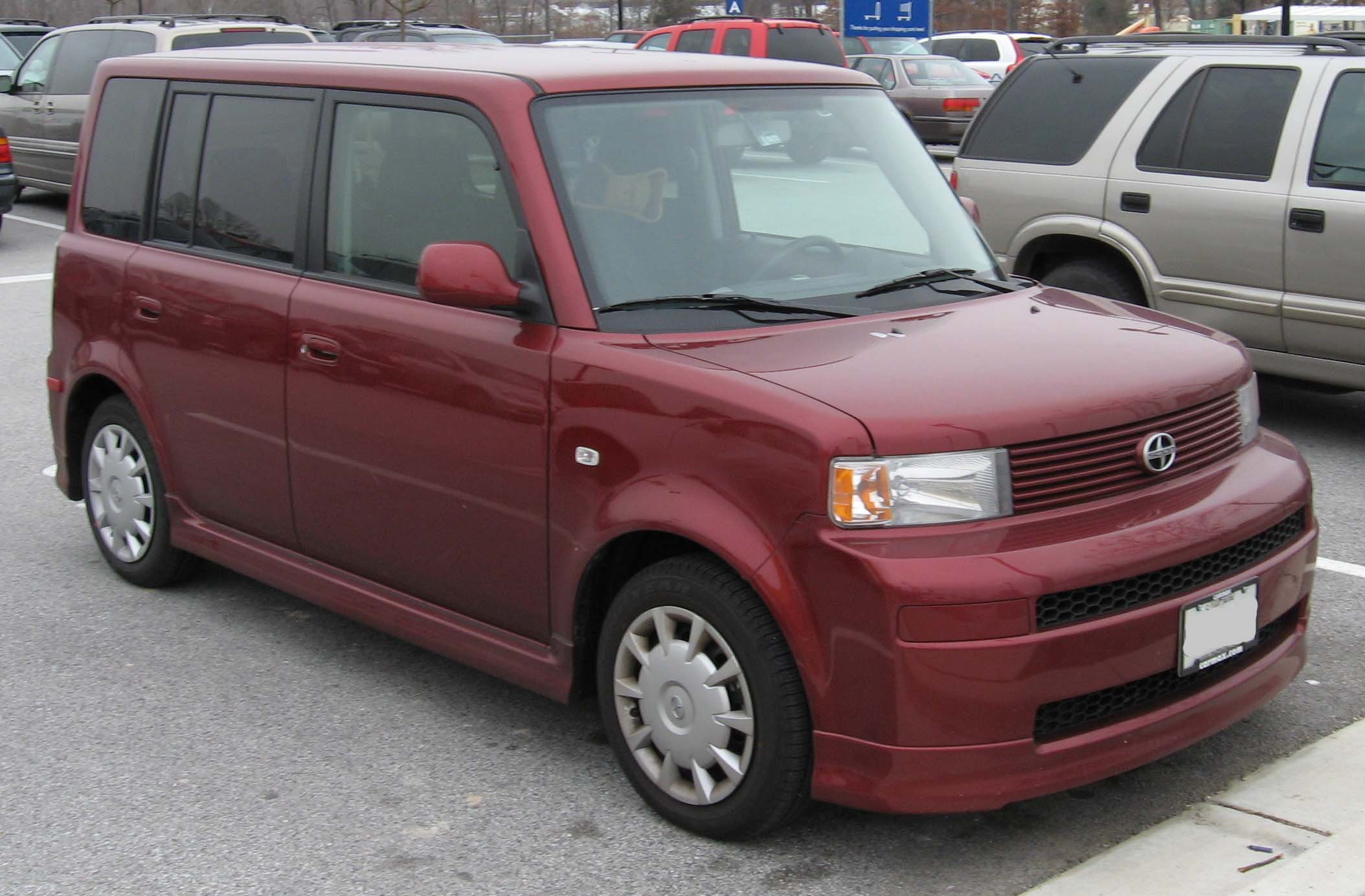 2006 Scion xB photographed in USA.